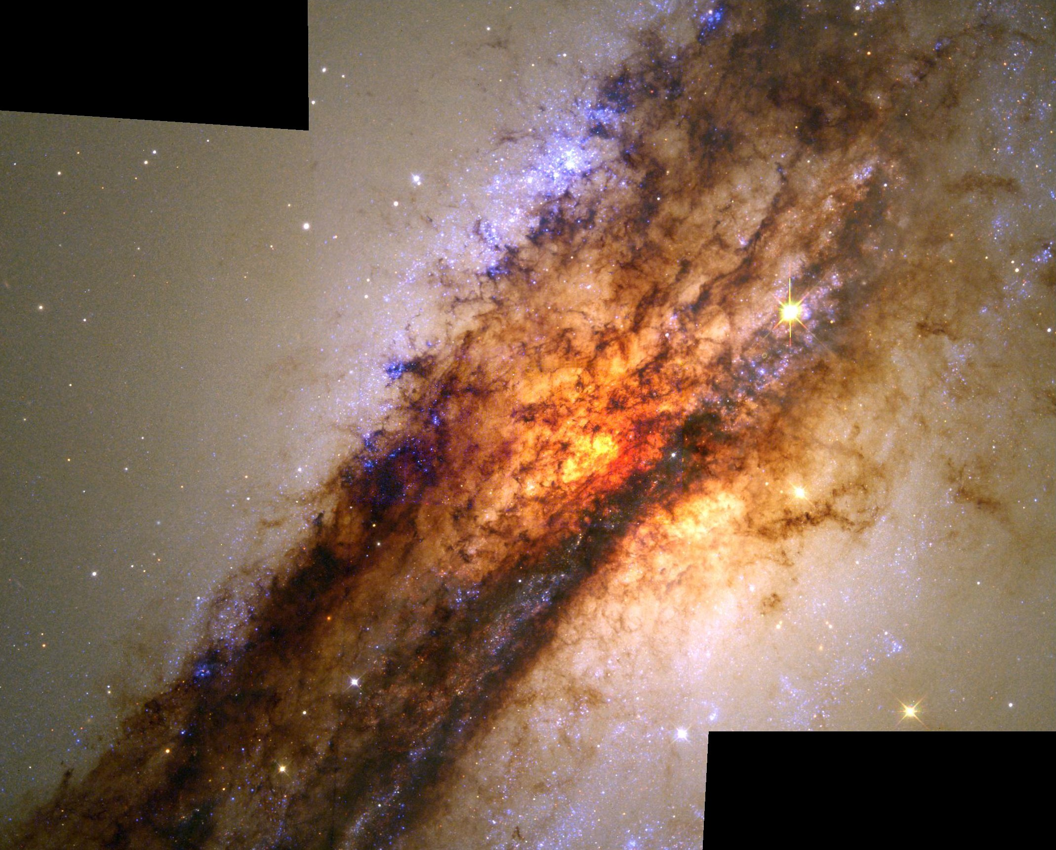 A Hubble Space Telescope (HST) image of the dust disk in front of the nucleus of Centaurus A. Credit: HST/NASA/ESA. ESA/Hubble images of Centaurus A Category:Hubble Space Telescope images